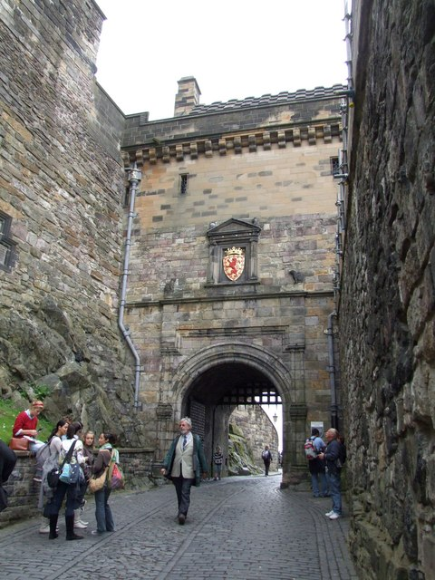 Portcullis Gate, Edinburgh Castle, Edinburgh